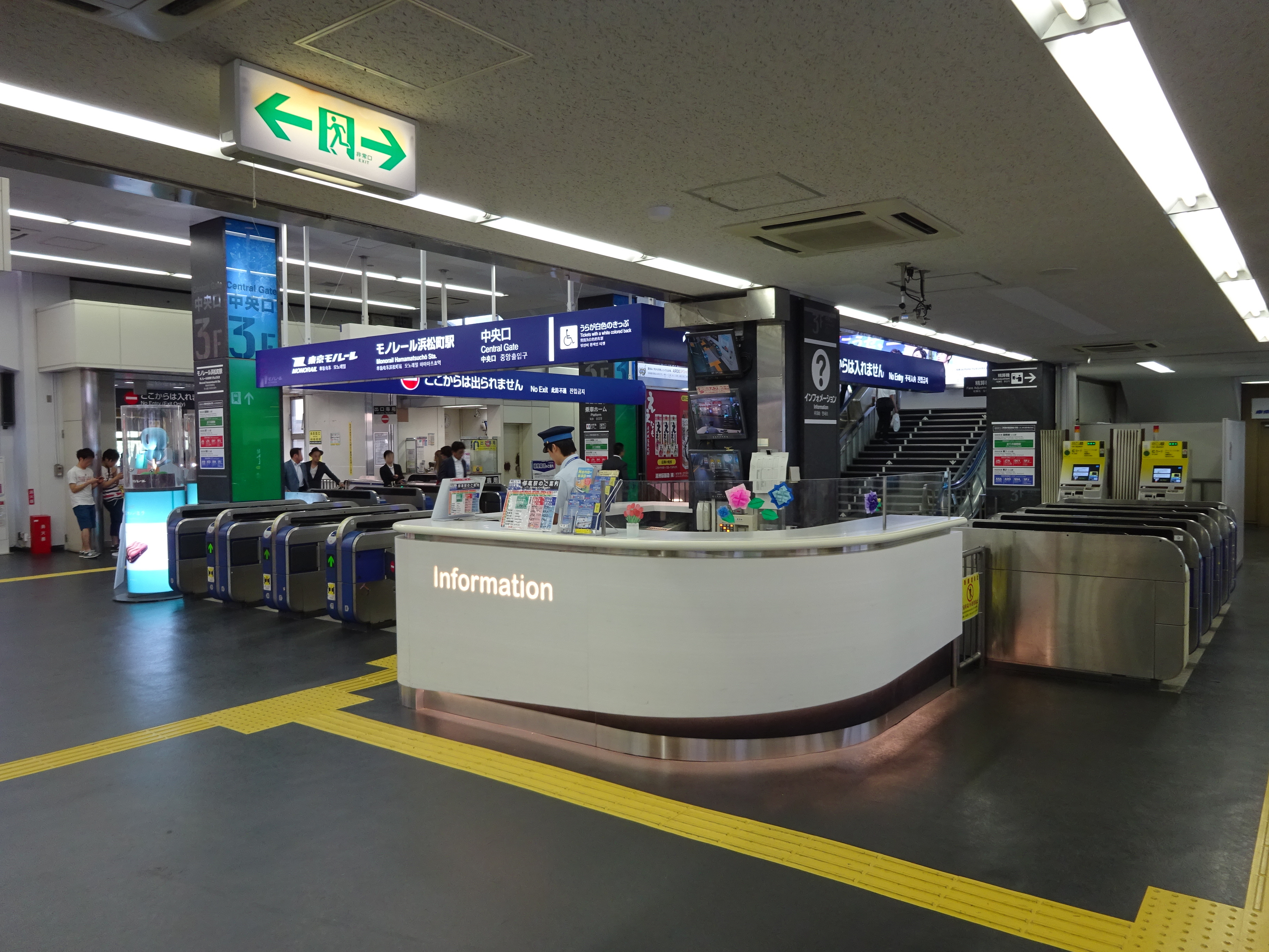 Central gate of Hamamatsuchō Station(Tokyo Monorail)